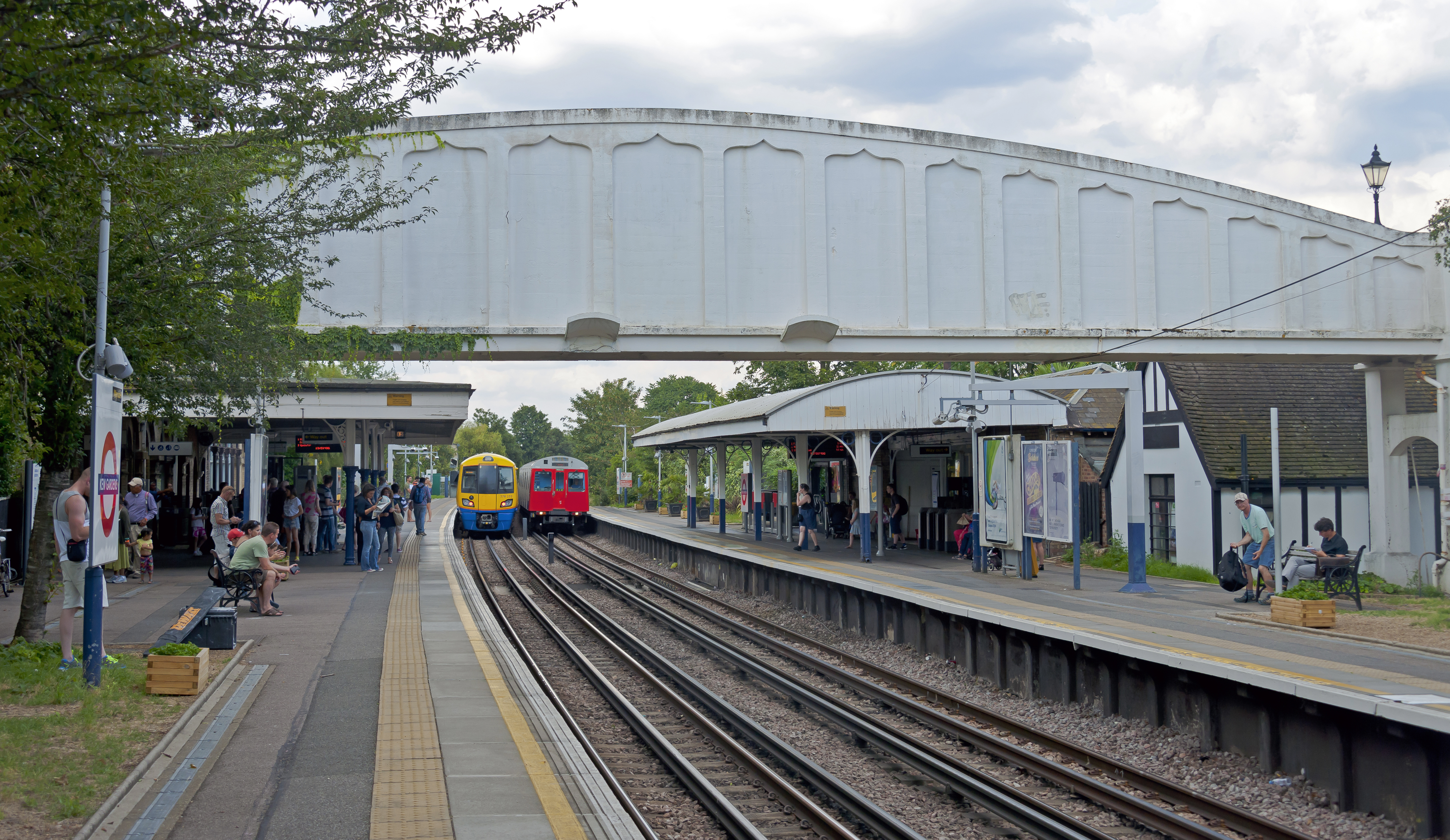 An eastbound departing London Overground train passes an arriving westbound train from the District Line of the Underground at the Kew Gardens station, with the station's historic footbridge visible.